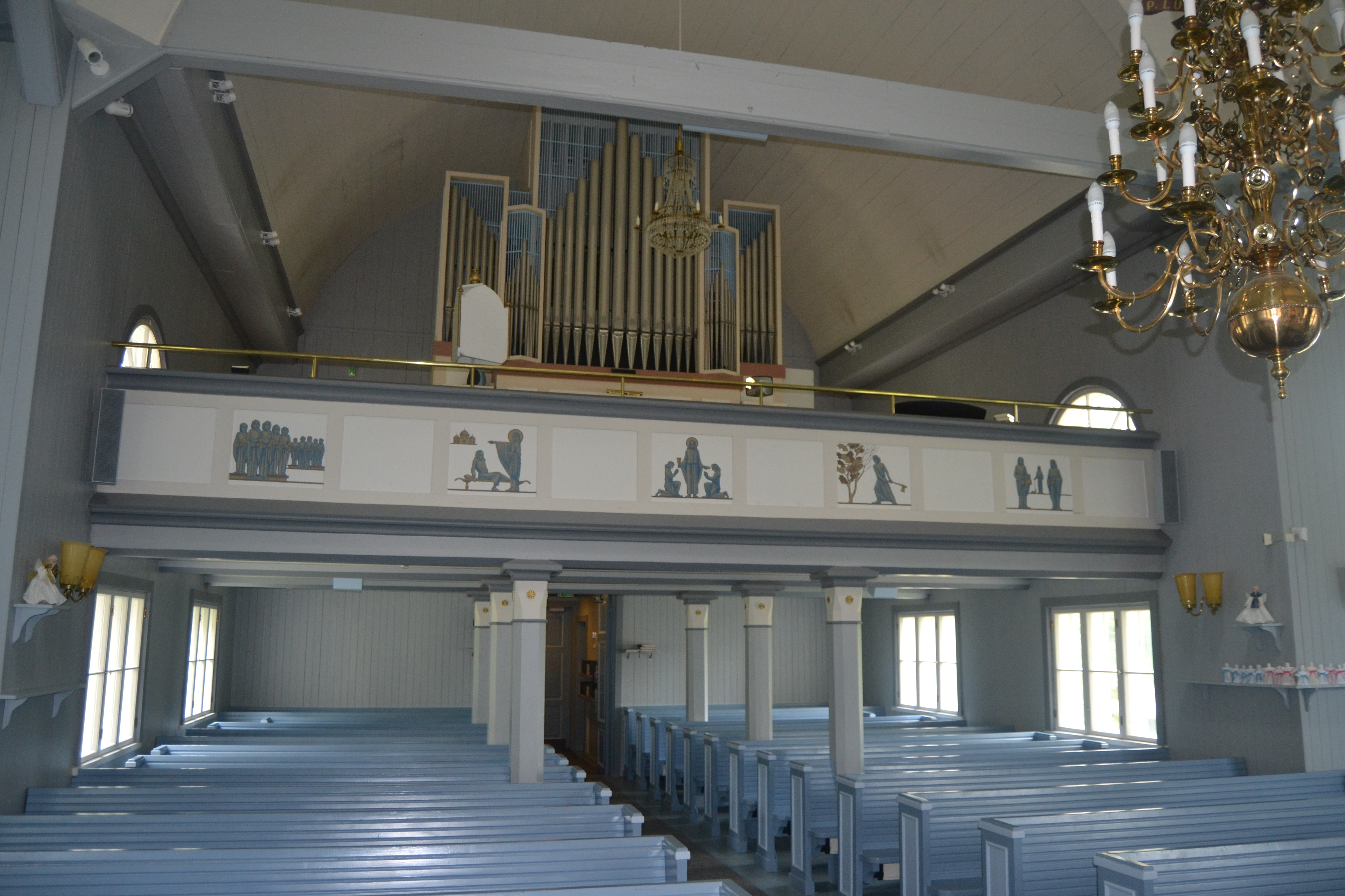 Interior of Pihtipudas Church in Finland